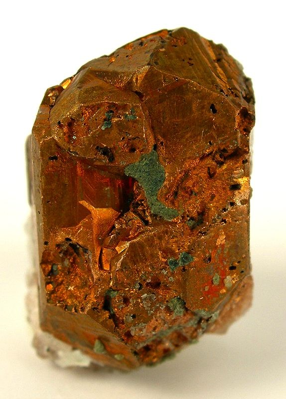 Copper Locality: Iraí, Alto Uruguai region, Rio Grande do Sul, South Region, Brazil (Locality at ) Size: 1.8 x 1.2 x 1.1 cm. Copper from Brazil, crystallized no less?! This robust, complex crystal was one of the largest and finest in form, and also has a wonderful, colorful iridescent patina on the surface. Complete all around.